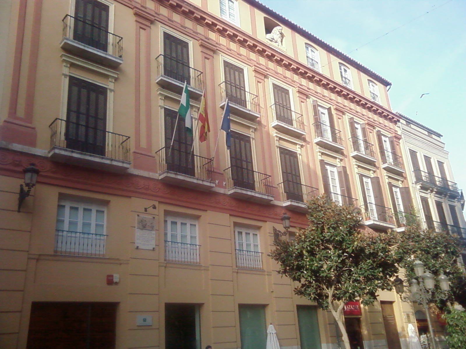 Former Parador de San Rafael building, Málaga, Spain Head offices of the Touristic Public Company of Andalusia.